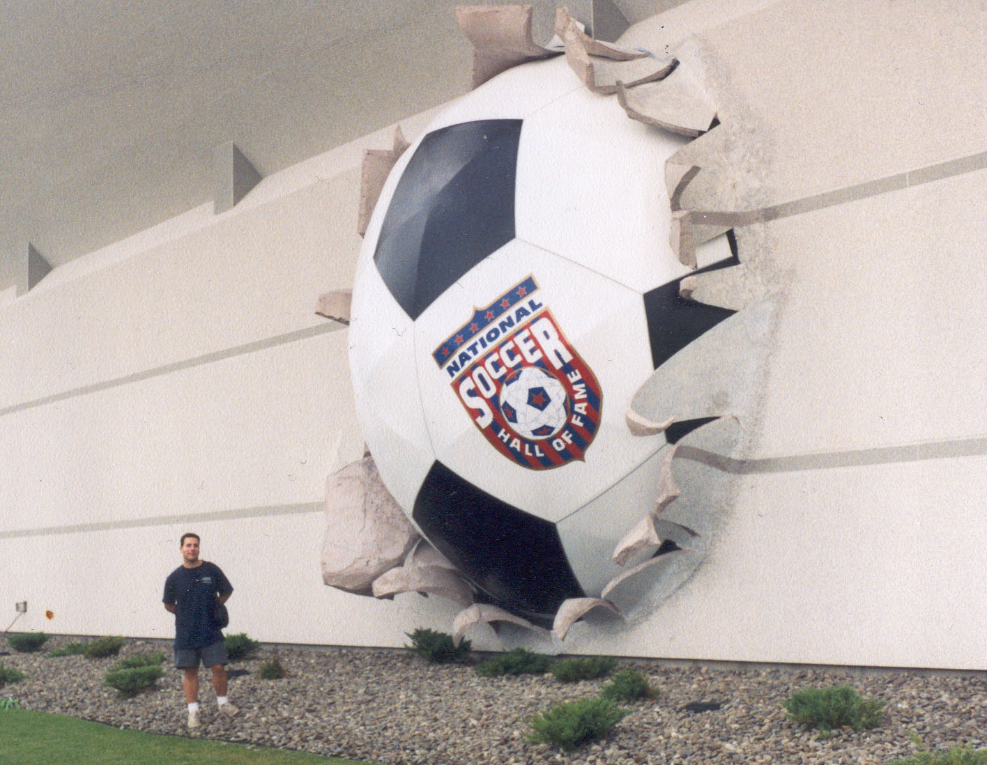 The ball in the wall at the National soccer hall of fame.